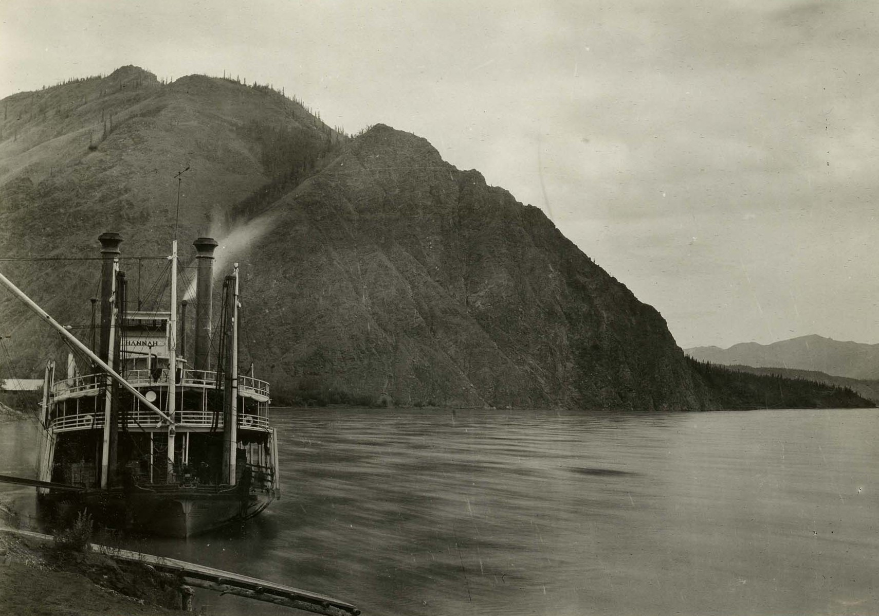 Steamer Hannah landing and rocky bluff on Yukon River, at Eagle, Alaska Local number: SIA2012-4544 Summary: SIA Acc. 11-093, Box 1, Folder Mary Agnes Chase Photograph Album 1898-1903; Photograph taken by Mary Agnes Chase or A. S. Hitchcock, documenting field work. Repository: Smithsonian Institution Archives View more collections from the Smithsonian Institution.